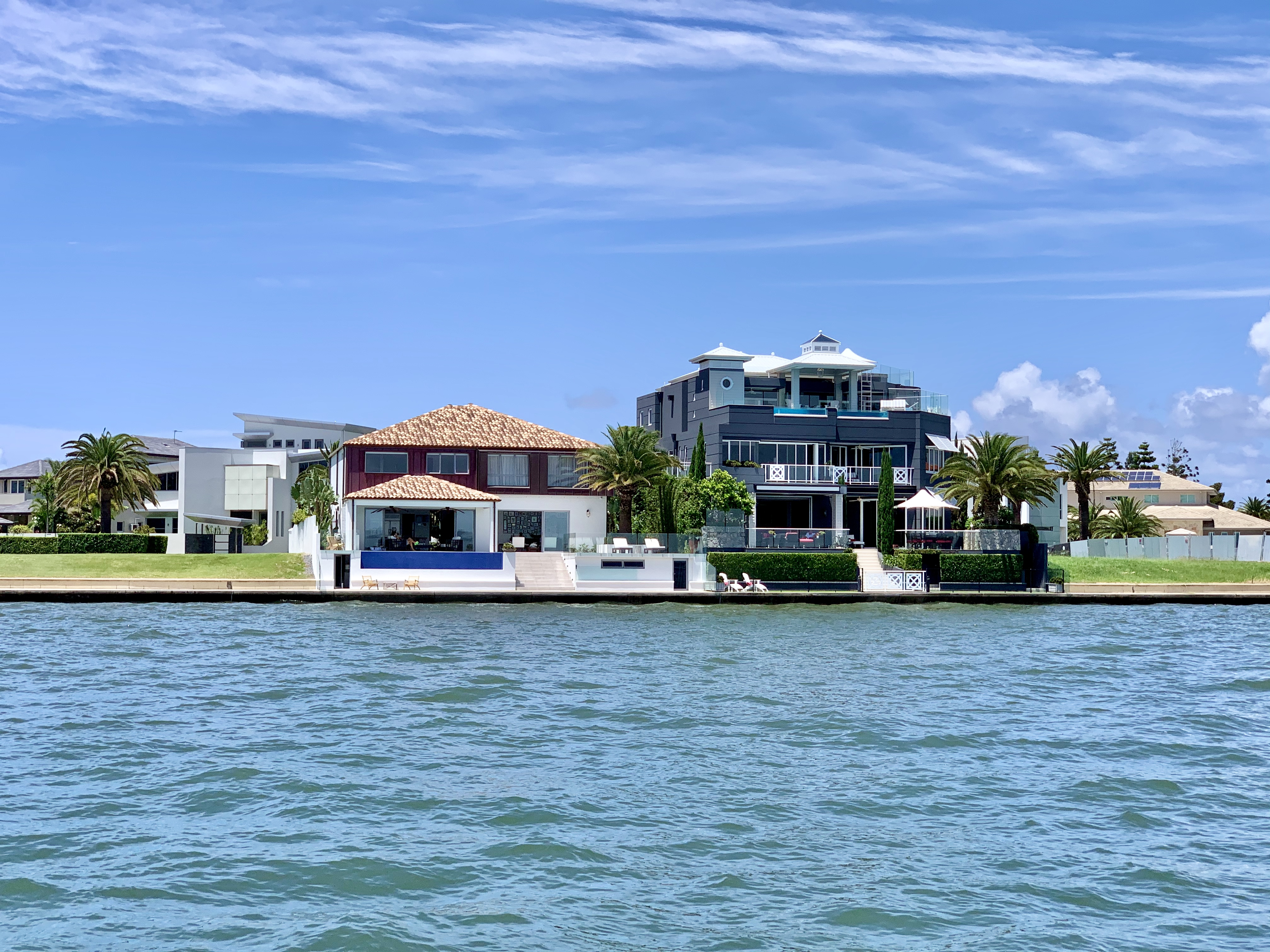 House on Sovereign Islands, Queensland